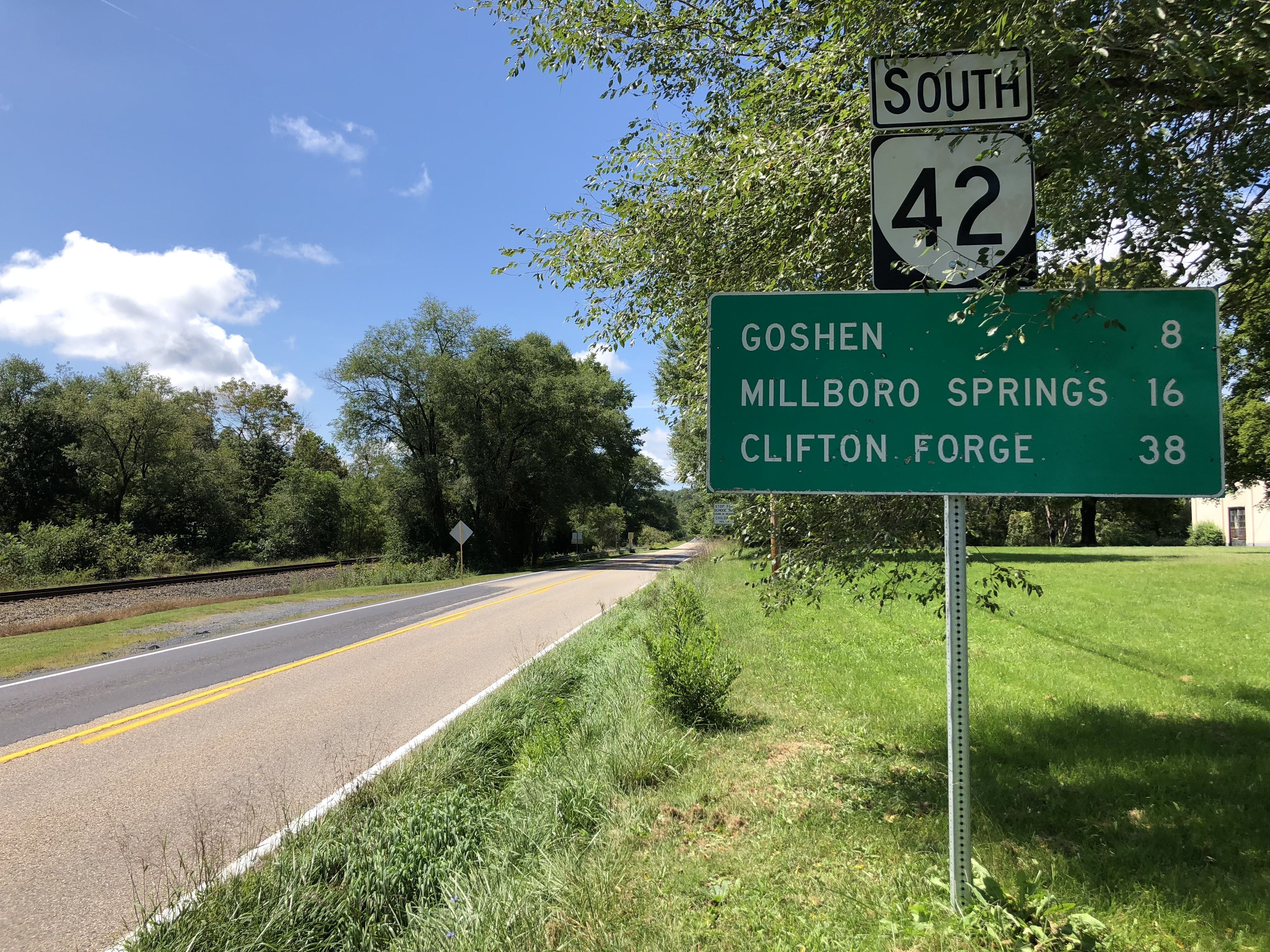 View south along Virginia State Route 42 (Craig Street) just south of Poplar Avenue in Craigsville, Augusta County, Virginia